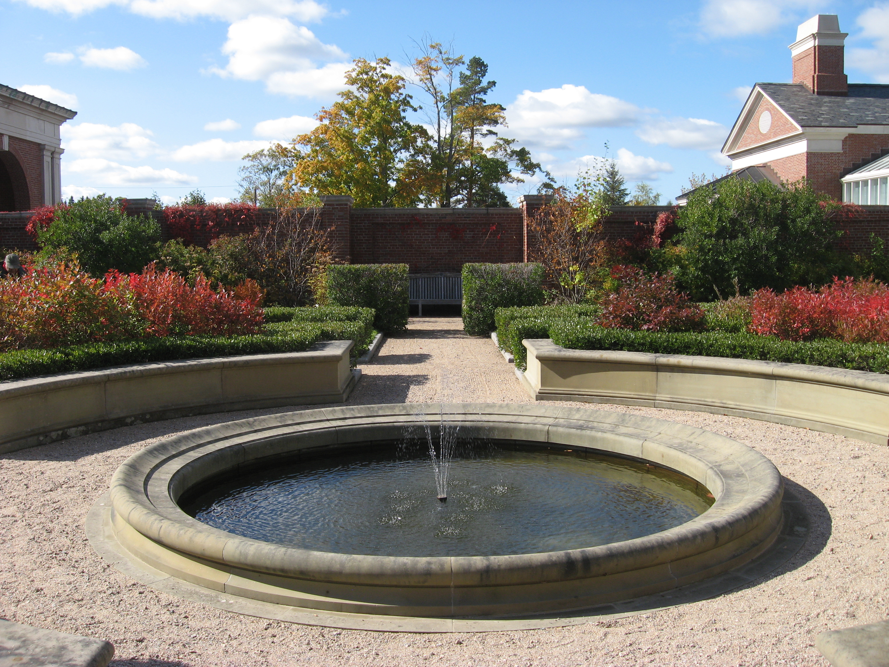 Acadia University